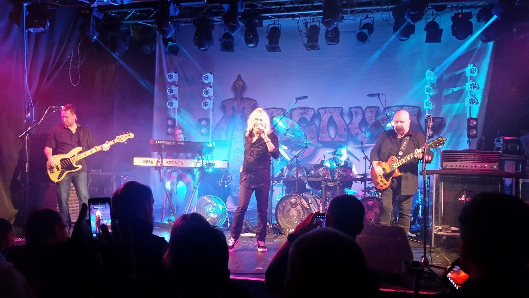 Magnum live at Holmfirth Picturedrome, 2018 (left to right) Al Barrow, Rick Benton, Bob Catley, Lee Morris, Tony Clarkin